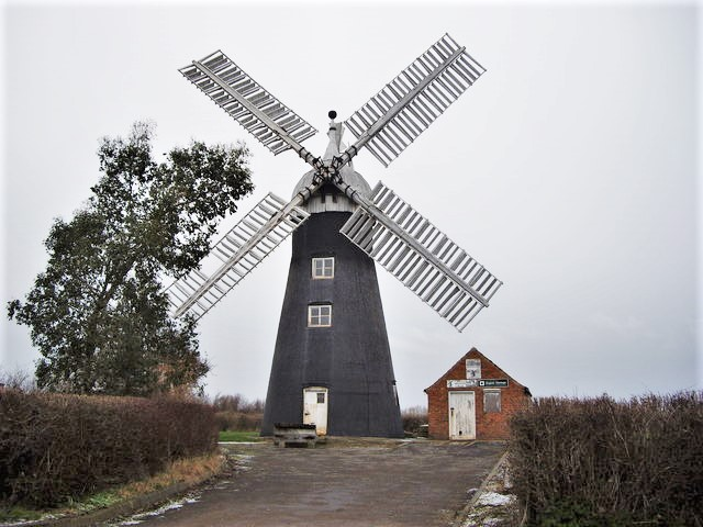 North Leverton Windmill Entry, when you're lucky enough to find it open is a mere £1. The mill was built around 1813 by a group of local farmers.